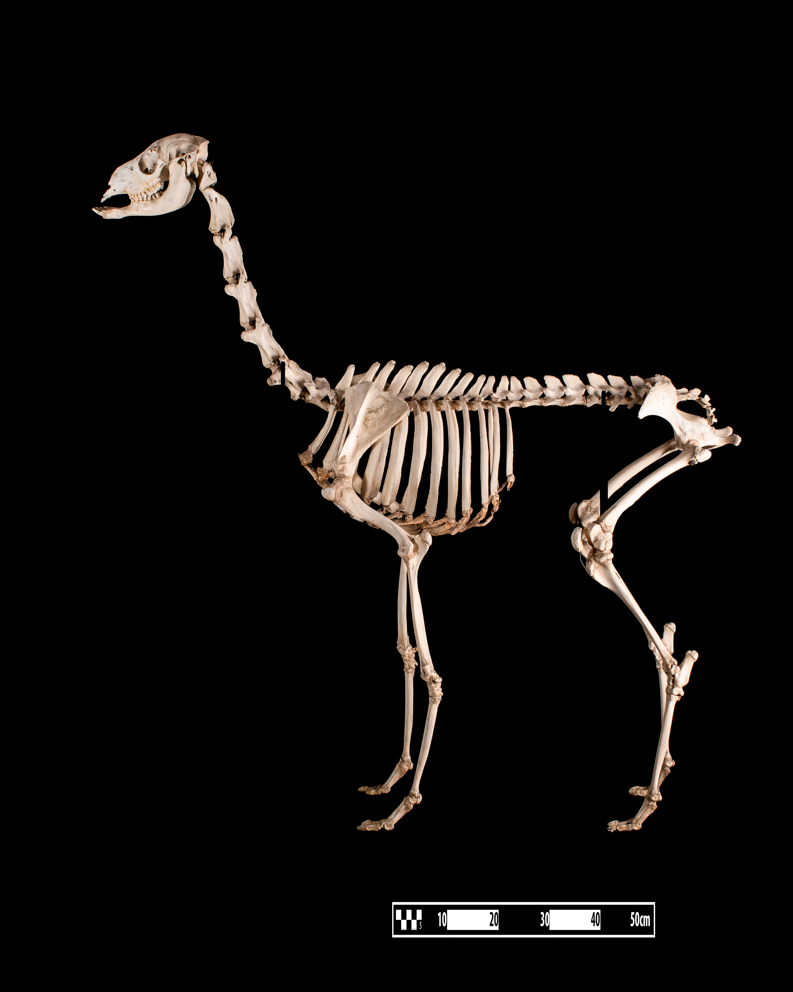 Llama skeleton. Lama glama. Specimen of llama skeleton prepared by the bone maceration technique and on display at the Museum of Veterinary Anatomy, FMVZ USP.